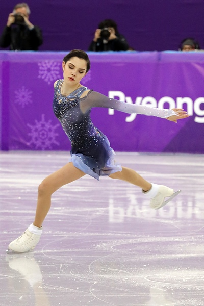 Evgenia Medvedeva at the 2018 Winter Olympic Games - Short program